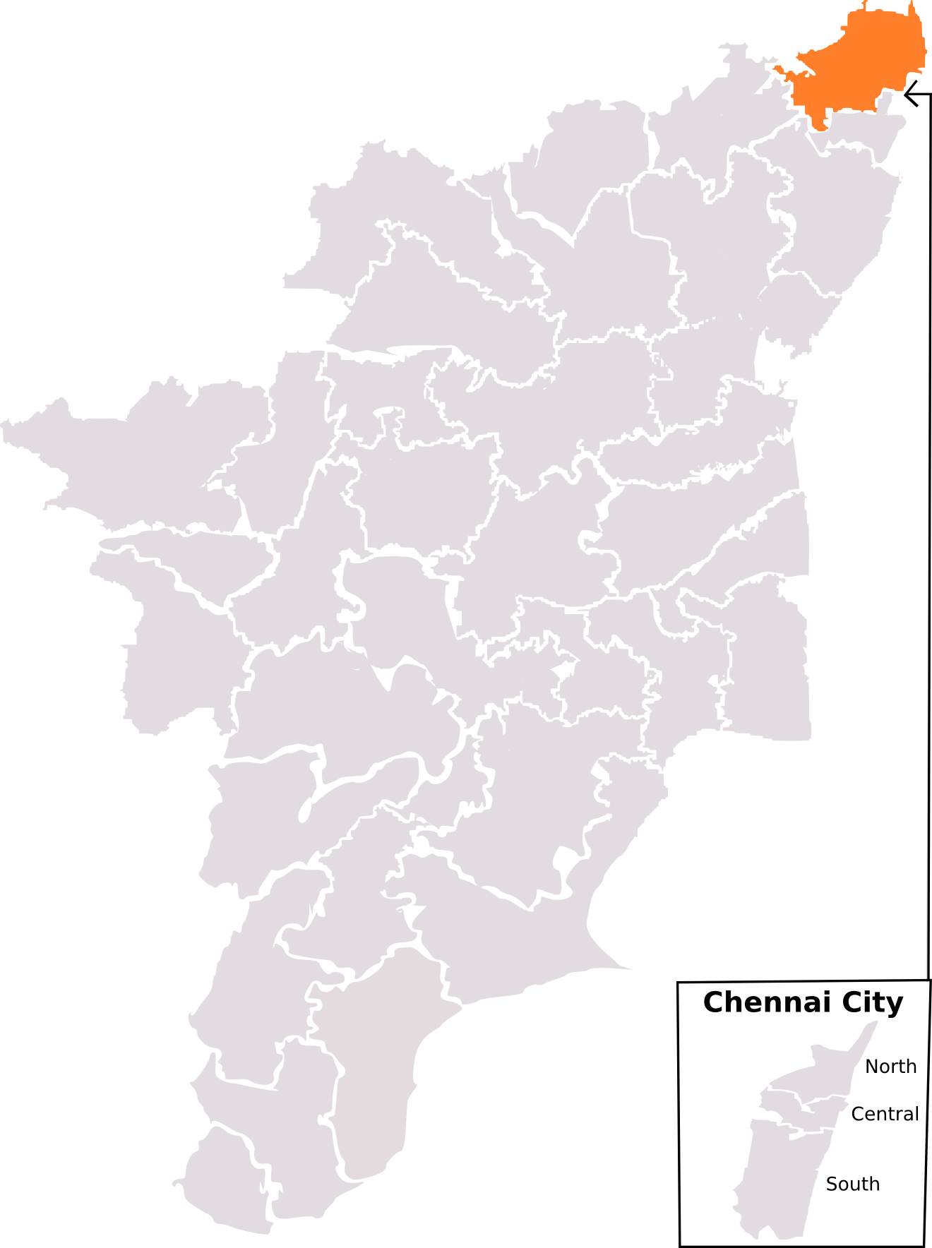 Lok Sabha Election map labeling each constituency for individual pages for Tamil Nadu after delimitation starting 2009 election. Map is based on ECI drawn map from